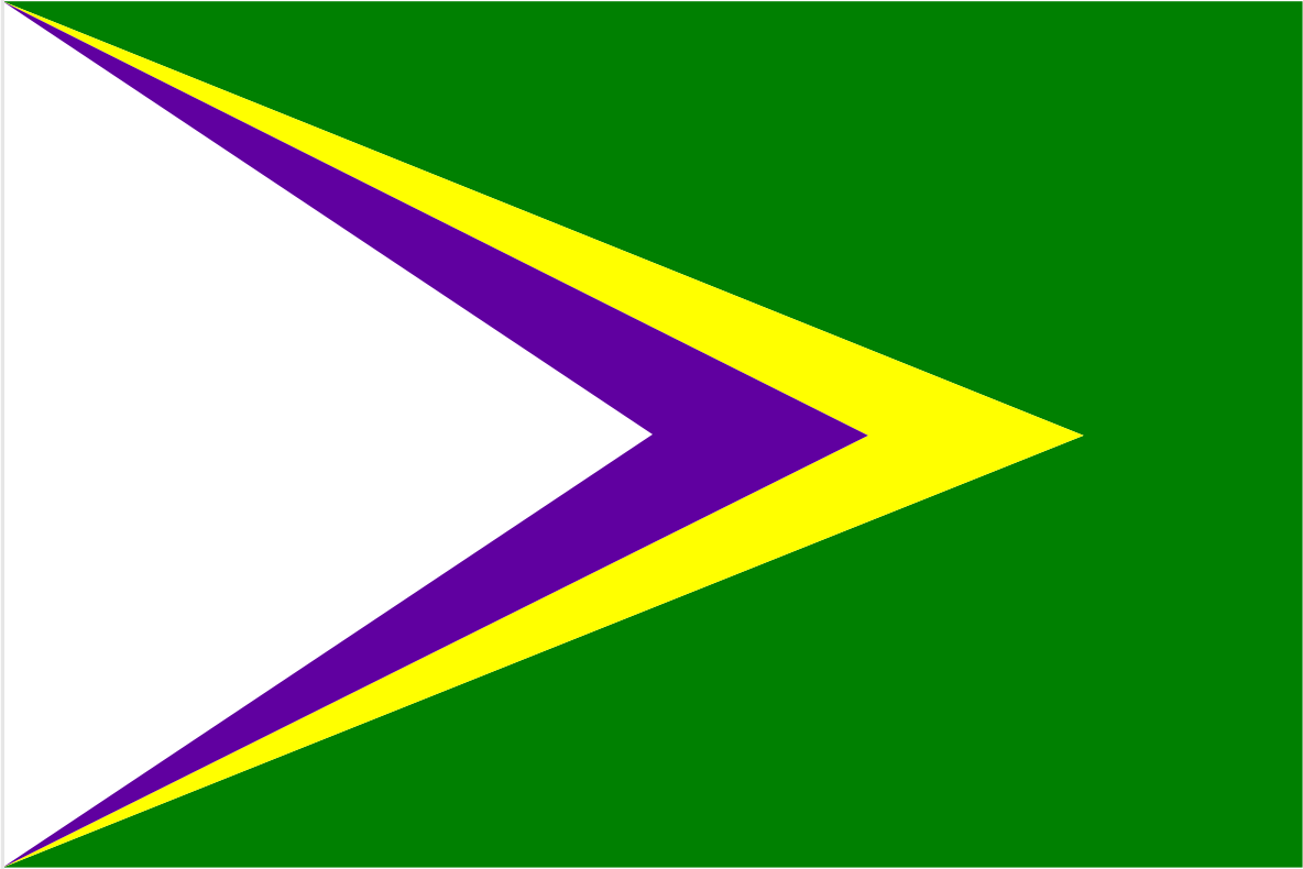 District of Villa Rica - Oxapampa - Pasco Region